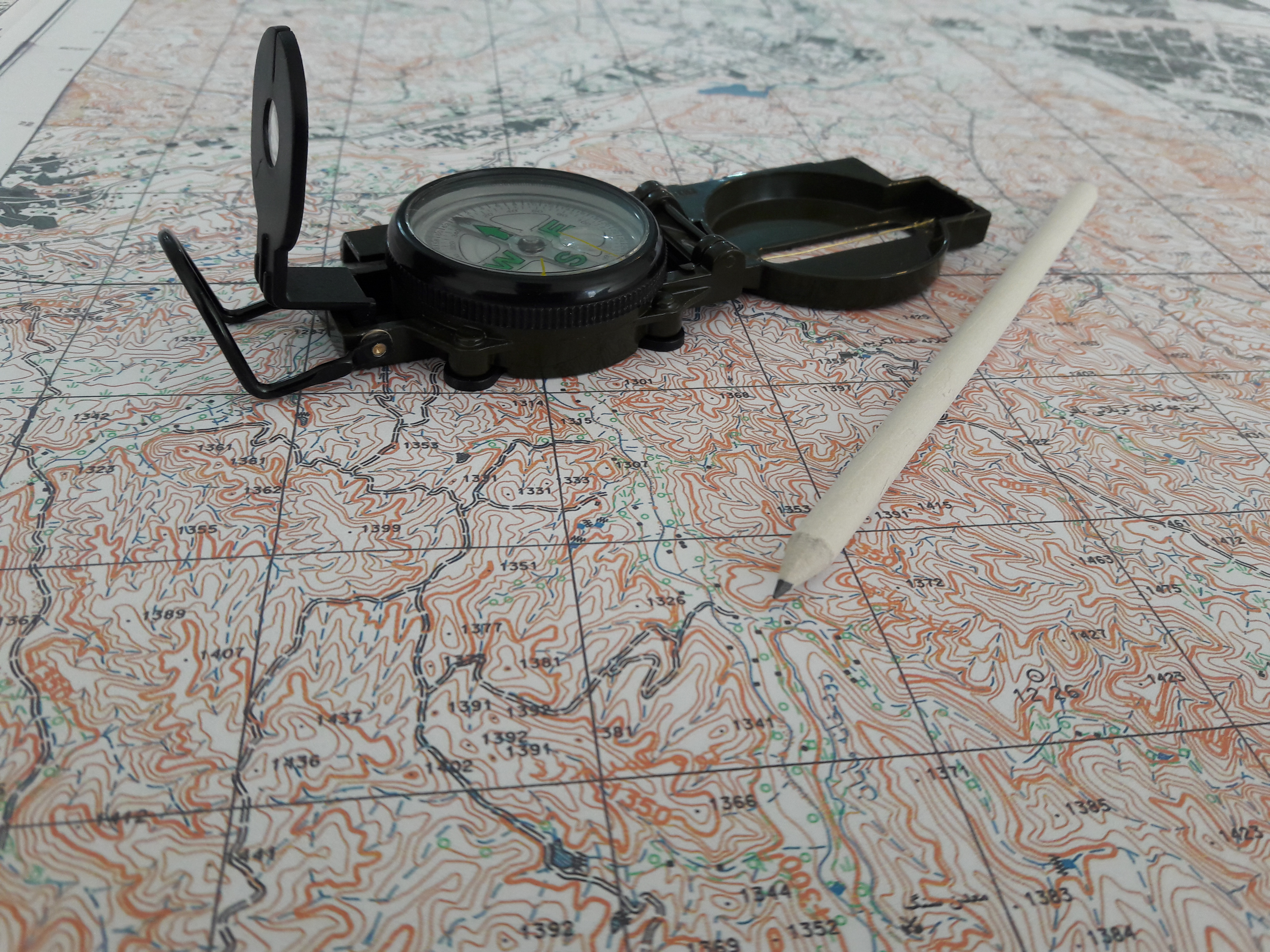 compass and map